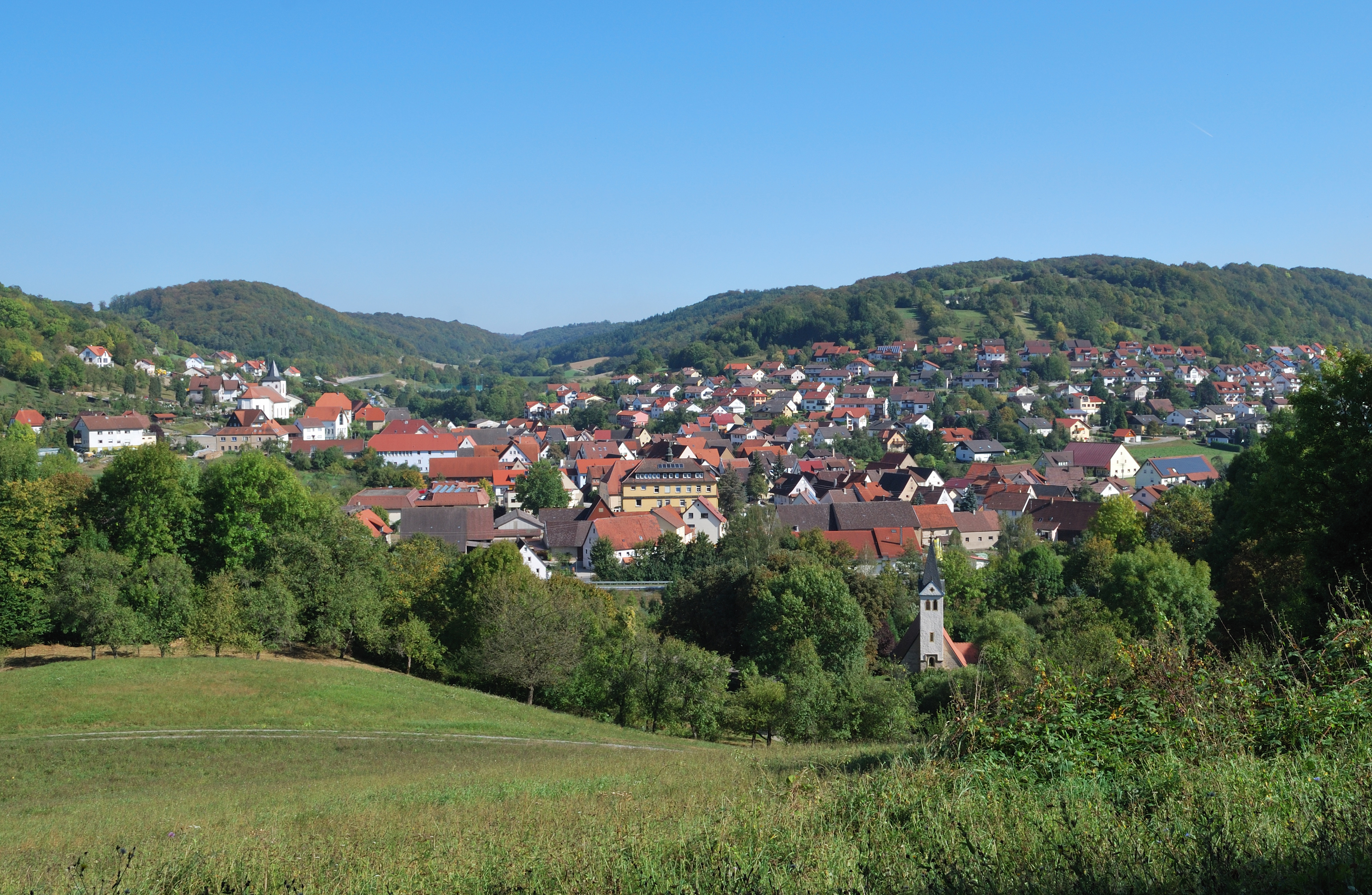 Mulfingen in the district of Hohenlohe in Germany. View from the West, from Jagstberg.